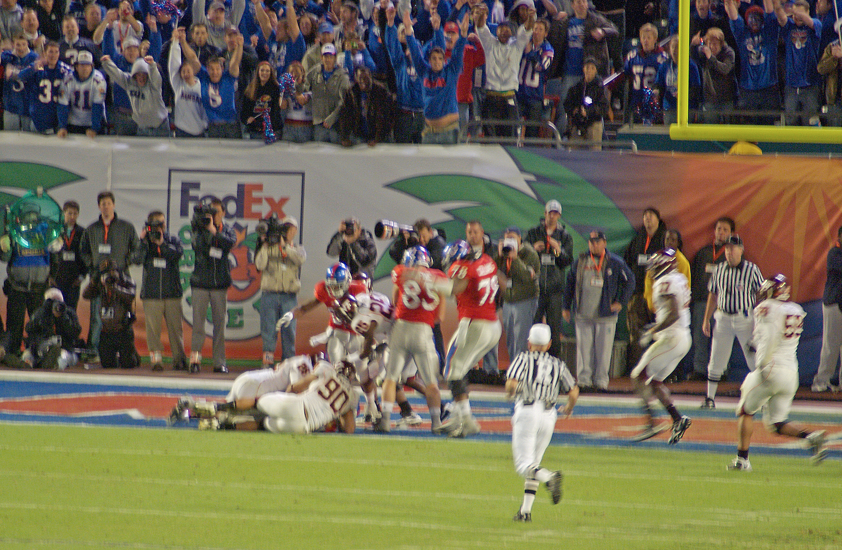 Kansas's offense rushes straight ahead for a short gain and a touchdown.